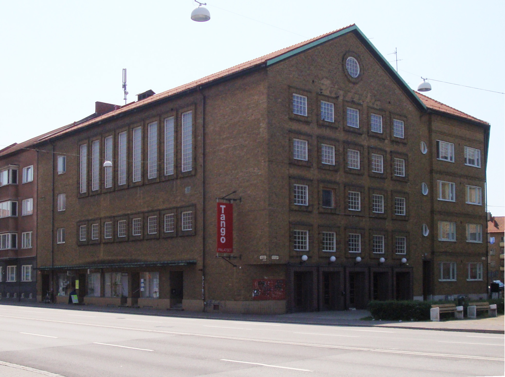 The house of Tangopalatset in Malmö, Sweden